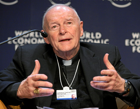 Theodore Cardinal McCarrick, Archbishop of Washington DC (2001-2006), USA captured during the session 'Faith and Modernization' at the Annual Meeting 2008 of the World Economic Forum in Davos, Switzerland, January 24, 2008.